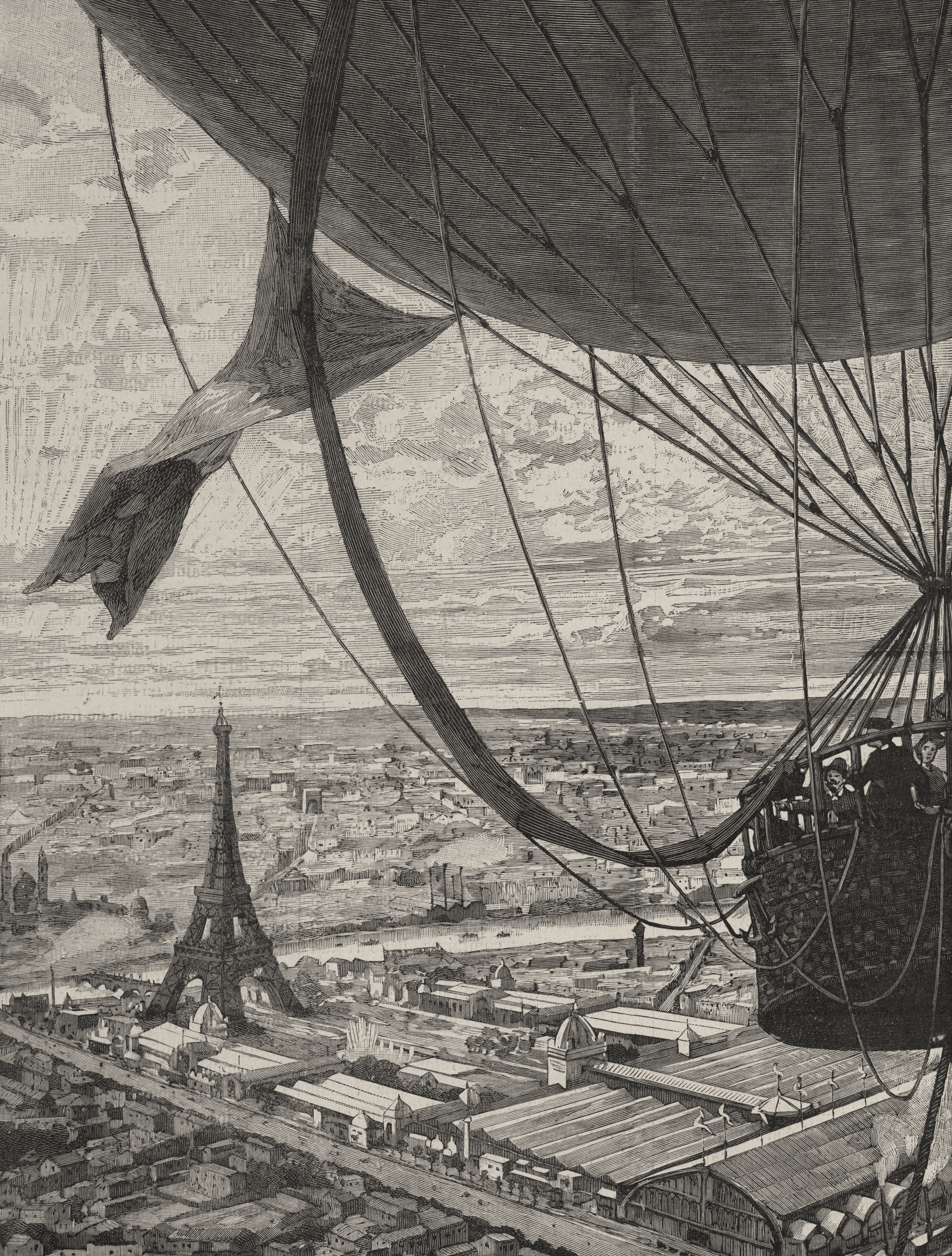 There were two outdoor hot air balloons during the 1889 World Fair: one was next to the Trocadéro, and the second one (represented here) was at the other end of the exhibit, next to the École Militaire. Visitors could admire the view from 400 meters above ground. The cityscape in the background includes the Palais des machines, Palais des expositions diverses, the two Palais des Arts libéraux and Palais des Beaux-Arts, the Eiffel Tower, and the Trocadéro Palace.